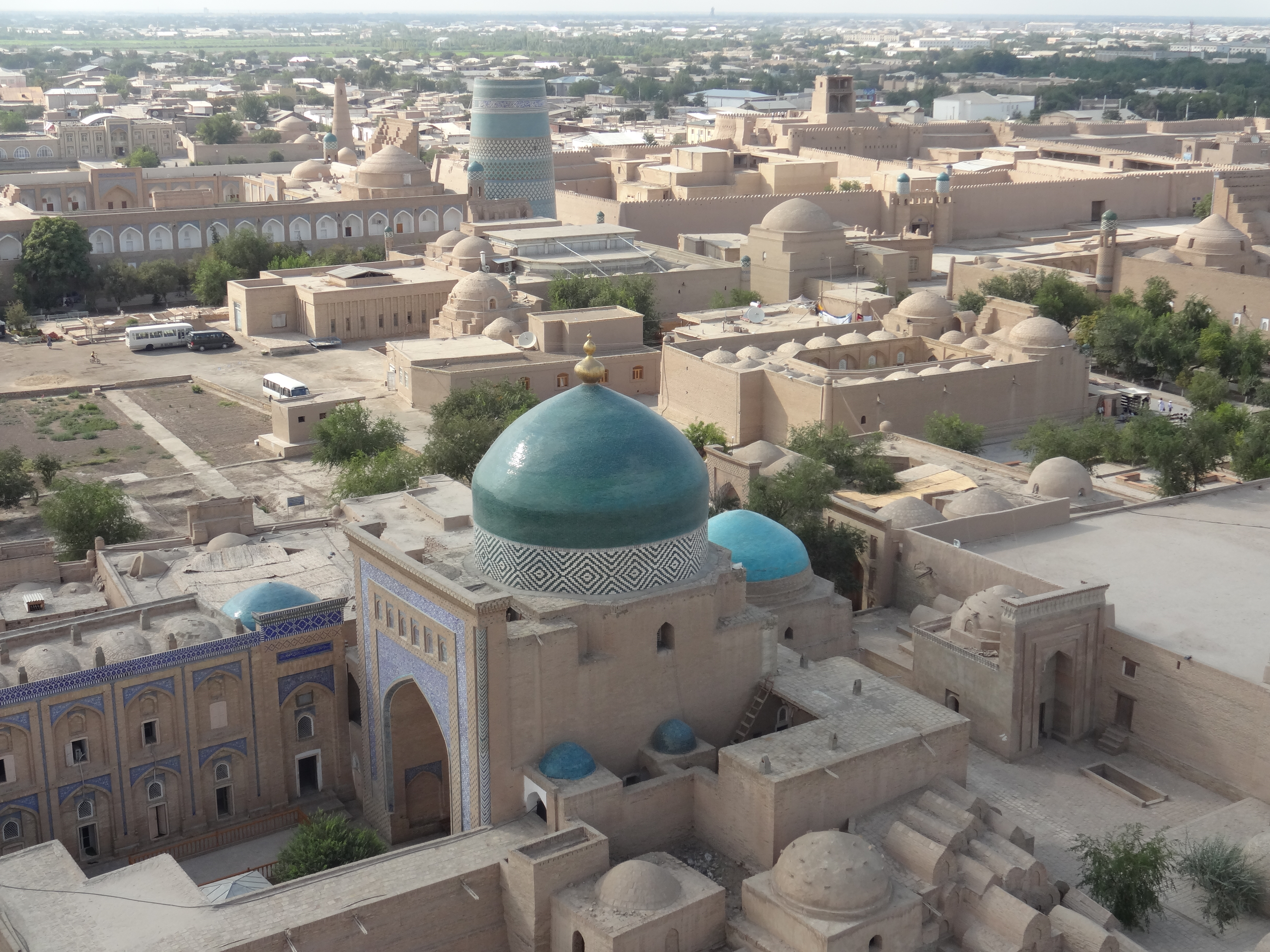 KHIVA